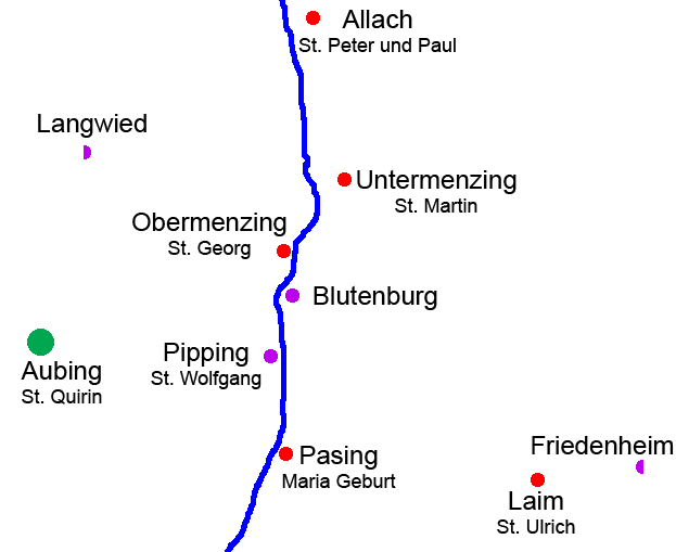 The parish Aubing in the Middle Ages (today: Munich-Aubing)